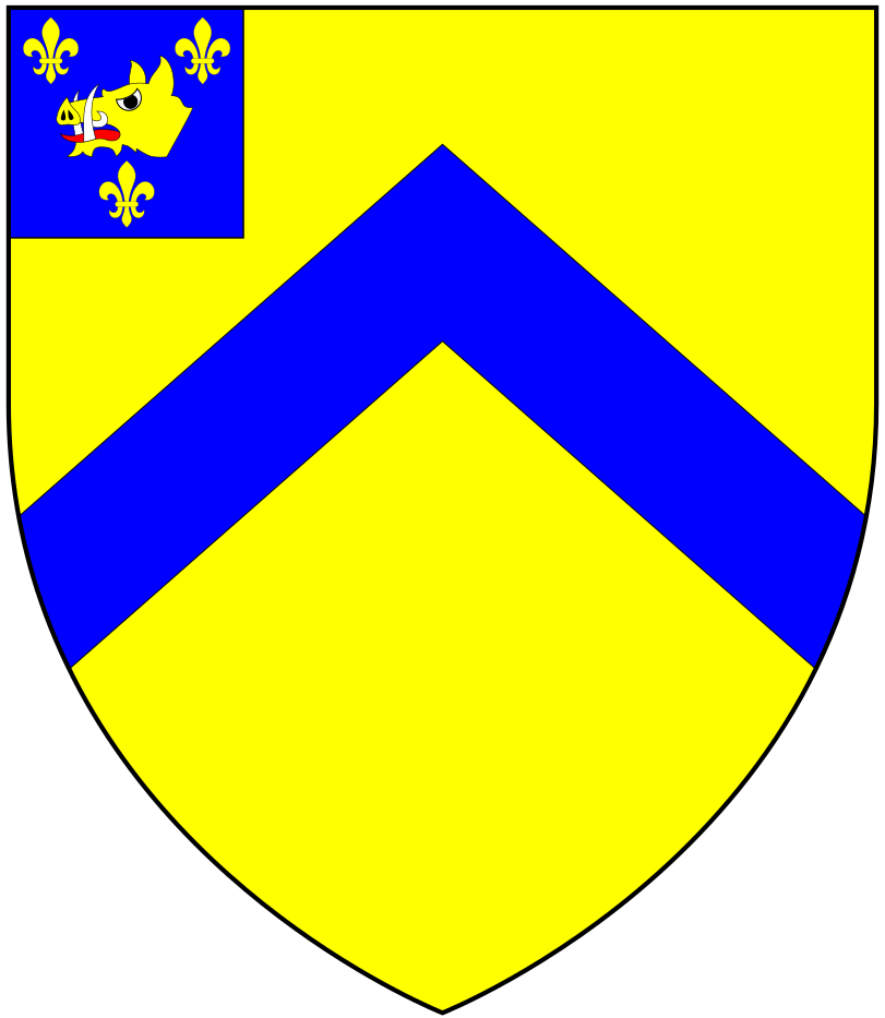 Arms of Edmonds of Plymouth, Devon: Or, a chevron azure on a canton of the second a boar's head couped between three fleurs-de-lys of the first (Vivian, Lt.Col. J.L., (Ed.) The Visitations of the County of Devon: Comprising the Heralds' Visitations of 1531, 1564 & 1620, Exeter, 1895, p.327)